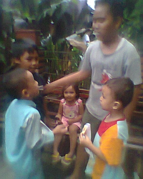 cingcangkeling